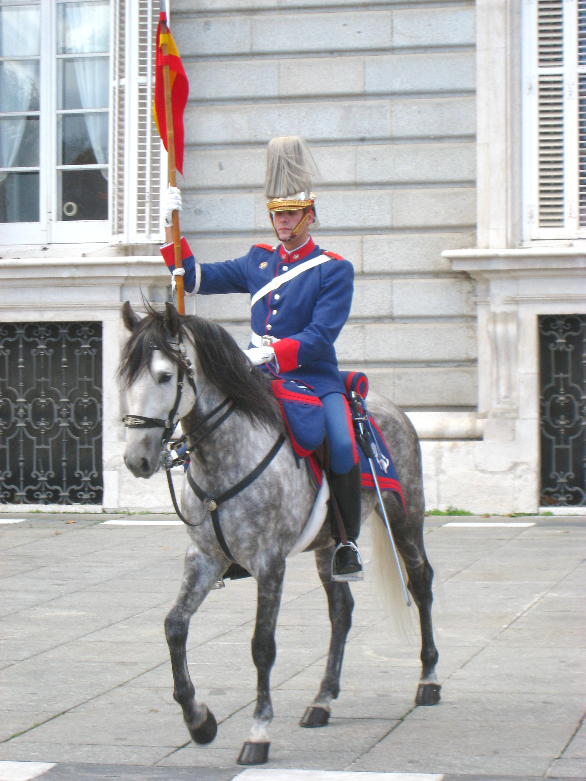 Changing of the Guard, Royal Palace of Madrid, Spain. I took this photograph.